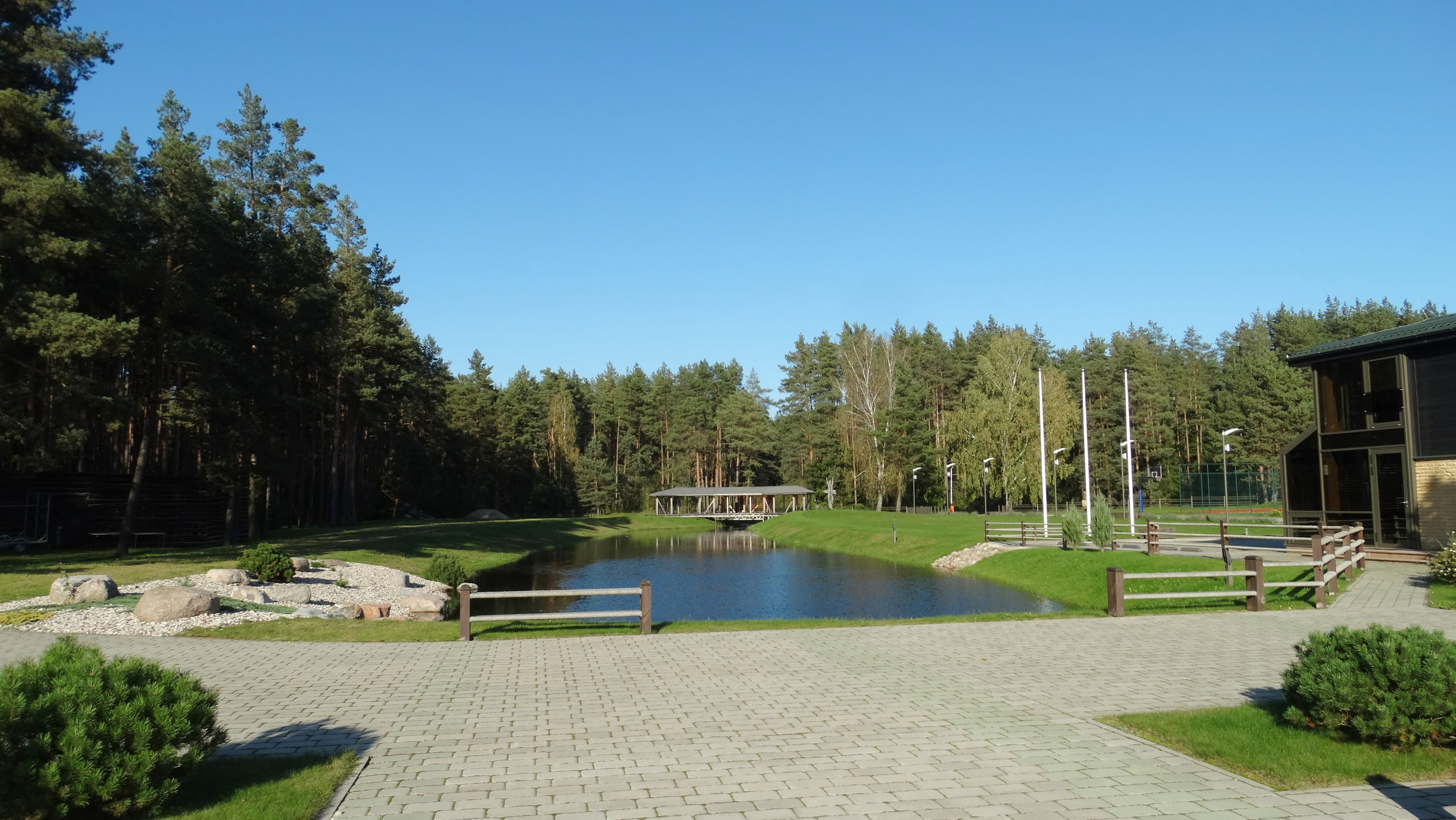 Žalioji, Anykščiai District, Lithuania